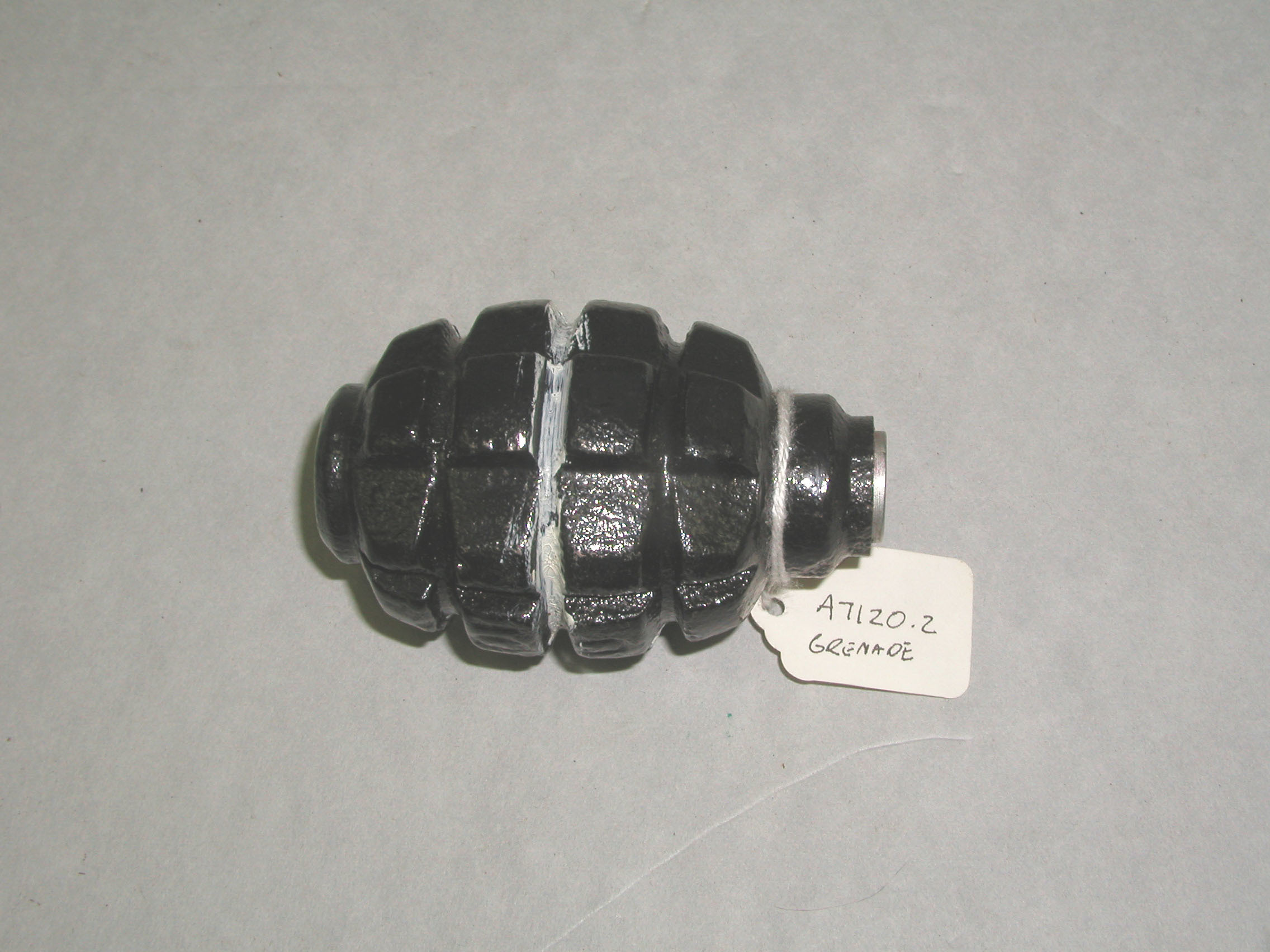 Grenade for Russian Nagant model revolver (A7120.1)